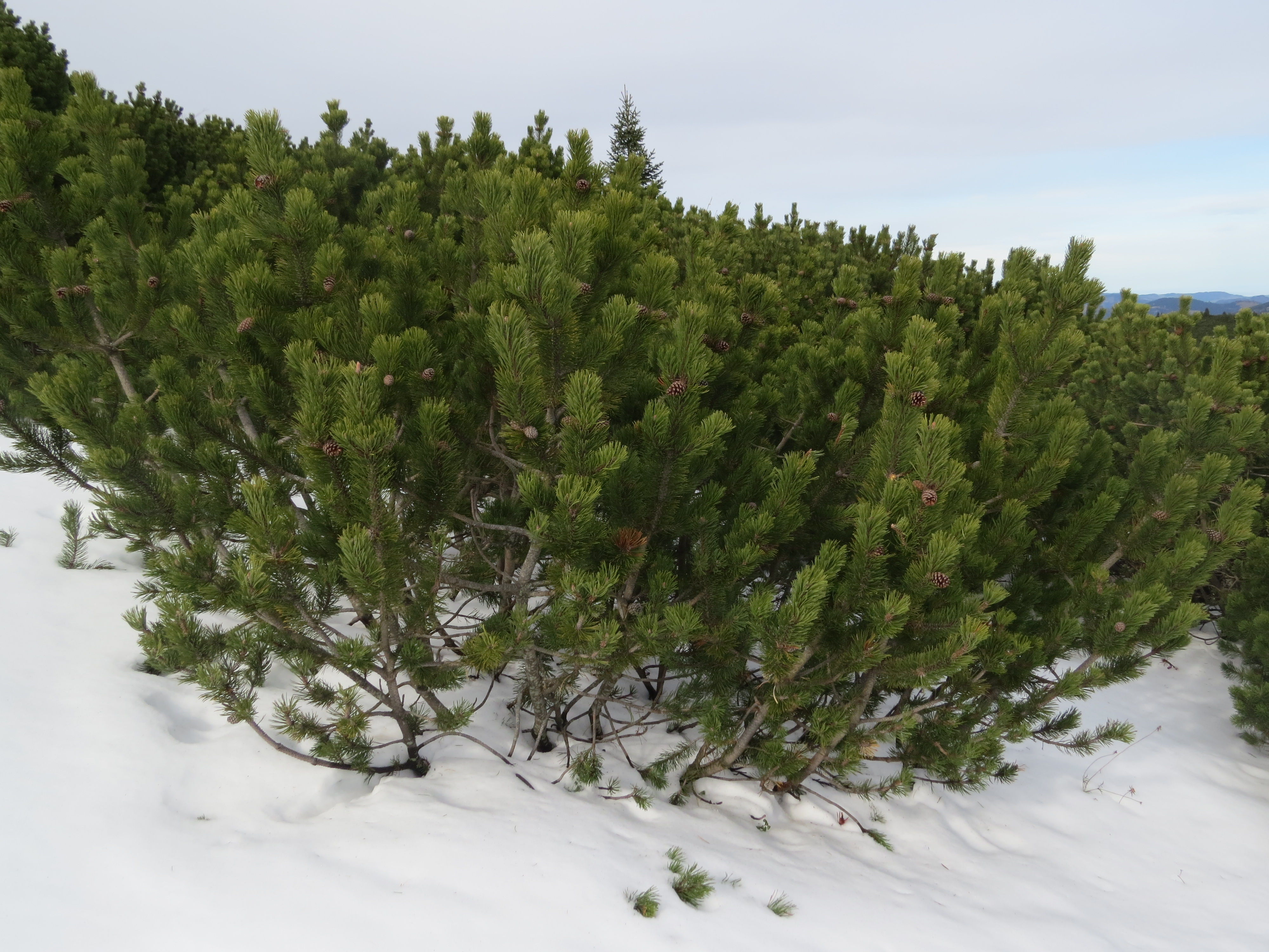 Pinus mugo subsp. mugo (Mountain Pine) at Rax, Austria